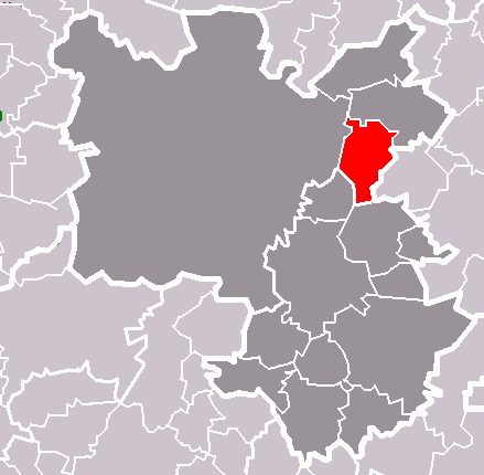 Location of Kyšice municipality within Plzeň-City District.